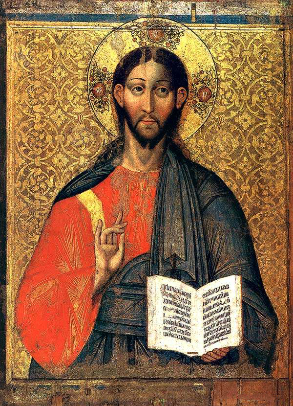 Christ Pantocrator